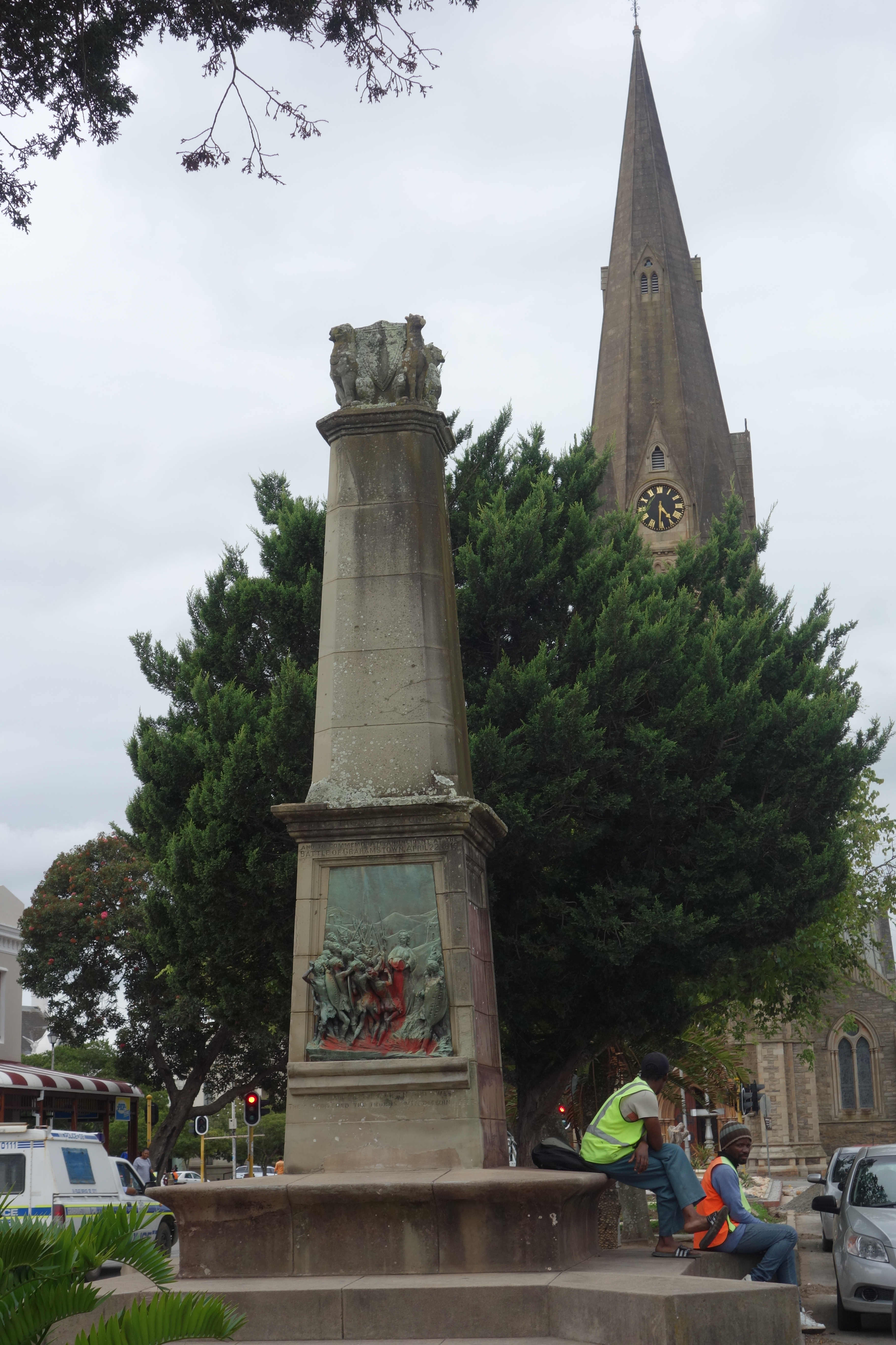 Elisabeth Salt Monument, High Street, Grahamstown, South Africa, commemorating the Xhosa-British battle of 22 April 1819. Some red paint, anno 2017.